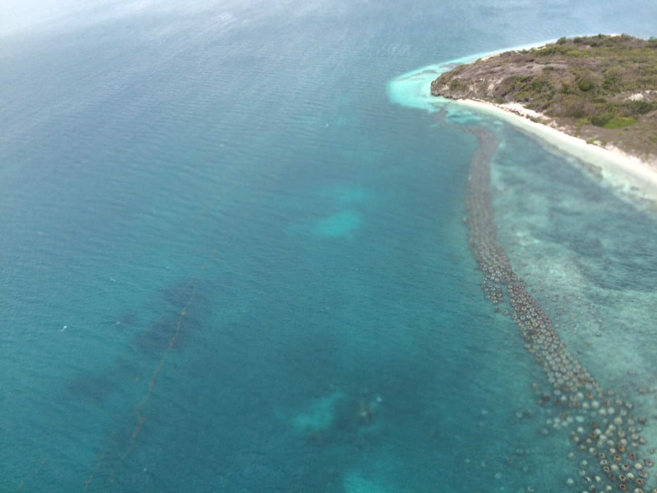 Aerial view of the Reef Ball designed artificial reef on Maiden Island in Antigua.